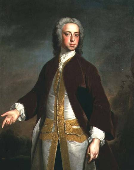 Portrait of Lord Sherard Manners (c. 1713 – 13 January 1742)